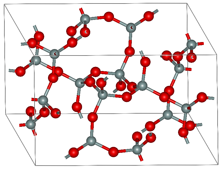 Coesite (SiO2), red atoms are oxygens Category:Quartz varieties